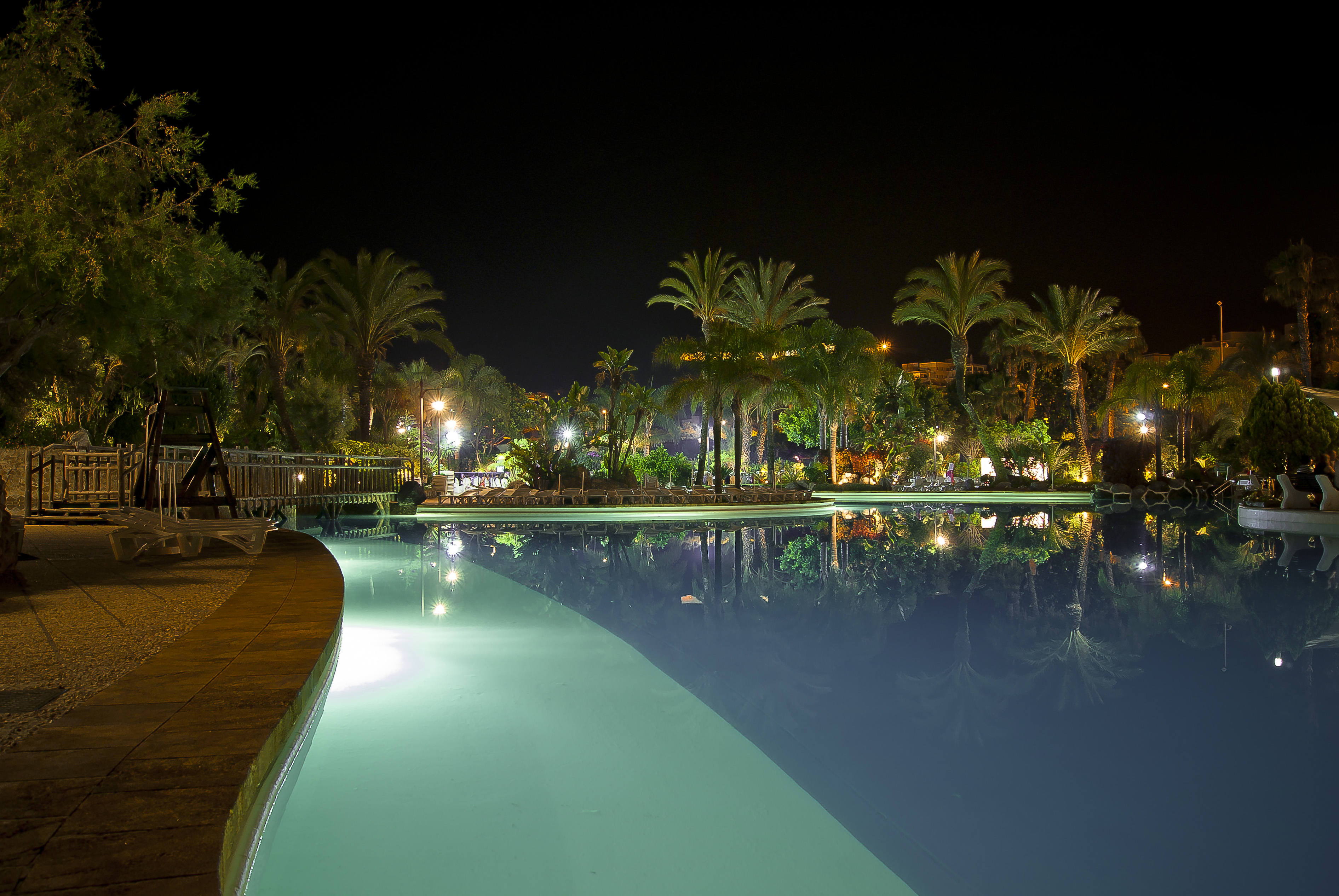 Mediterranean Sea Park of Sebta (Spain), 1995, by César Manrique